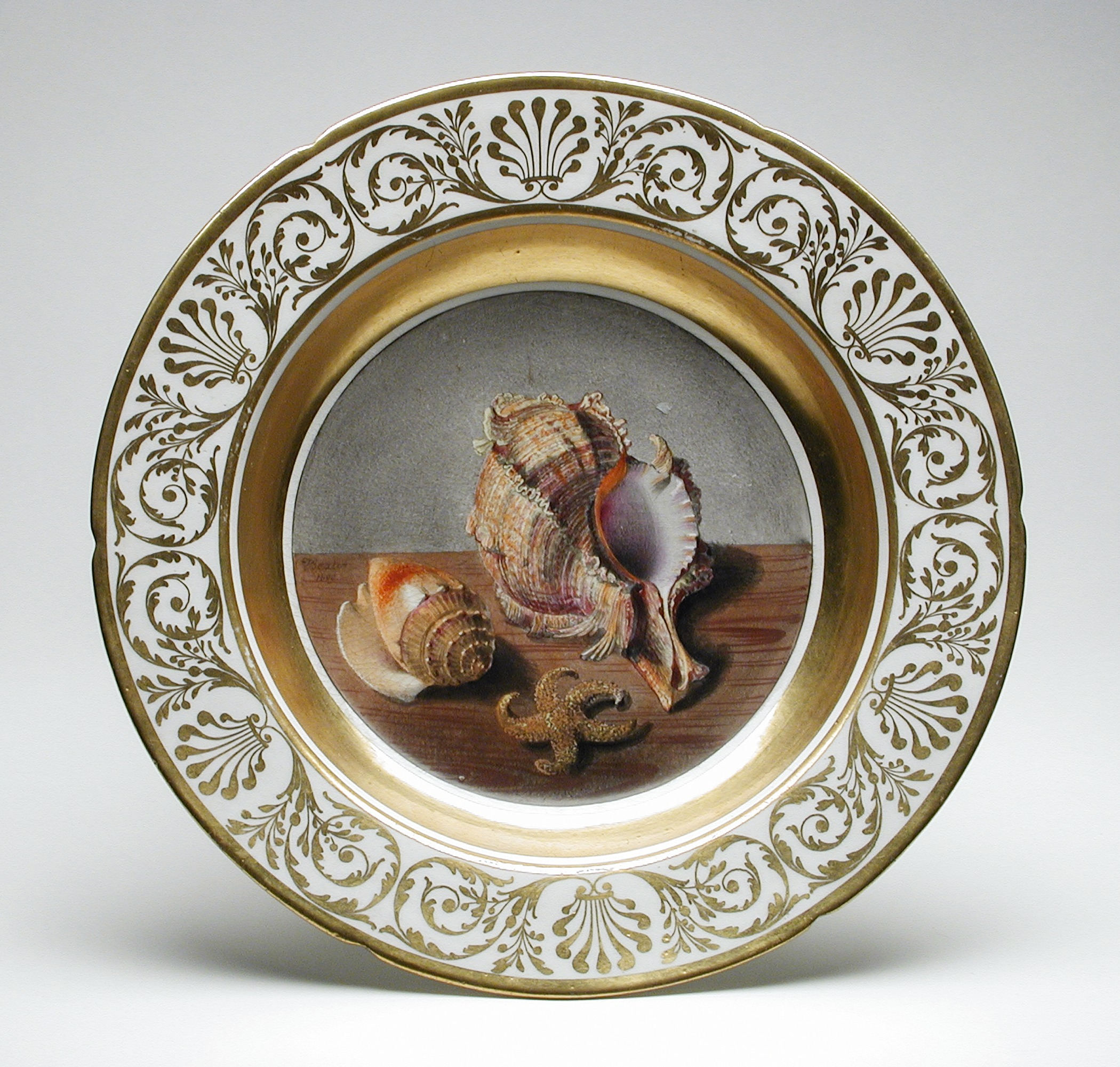 England, 1809 Furnishings; Serviceware Painted porcelain Diameter: 9 1/4 in. (23.5 cm) each Gift of Mrs. Mary P. Wells and Mr. Walter T. Wells (54.140.1.1-.4) Decorative Arts and Design